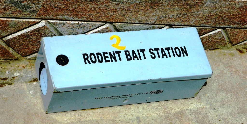 I took this photo on a trip to India in 2010.